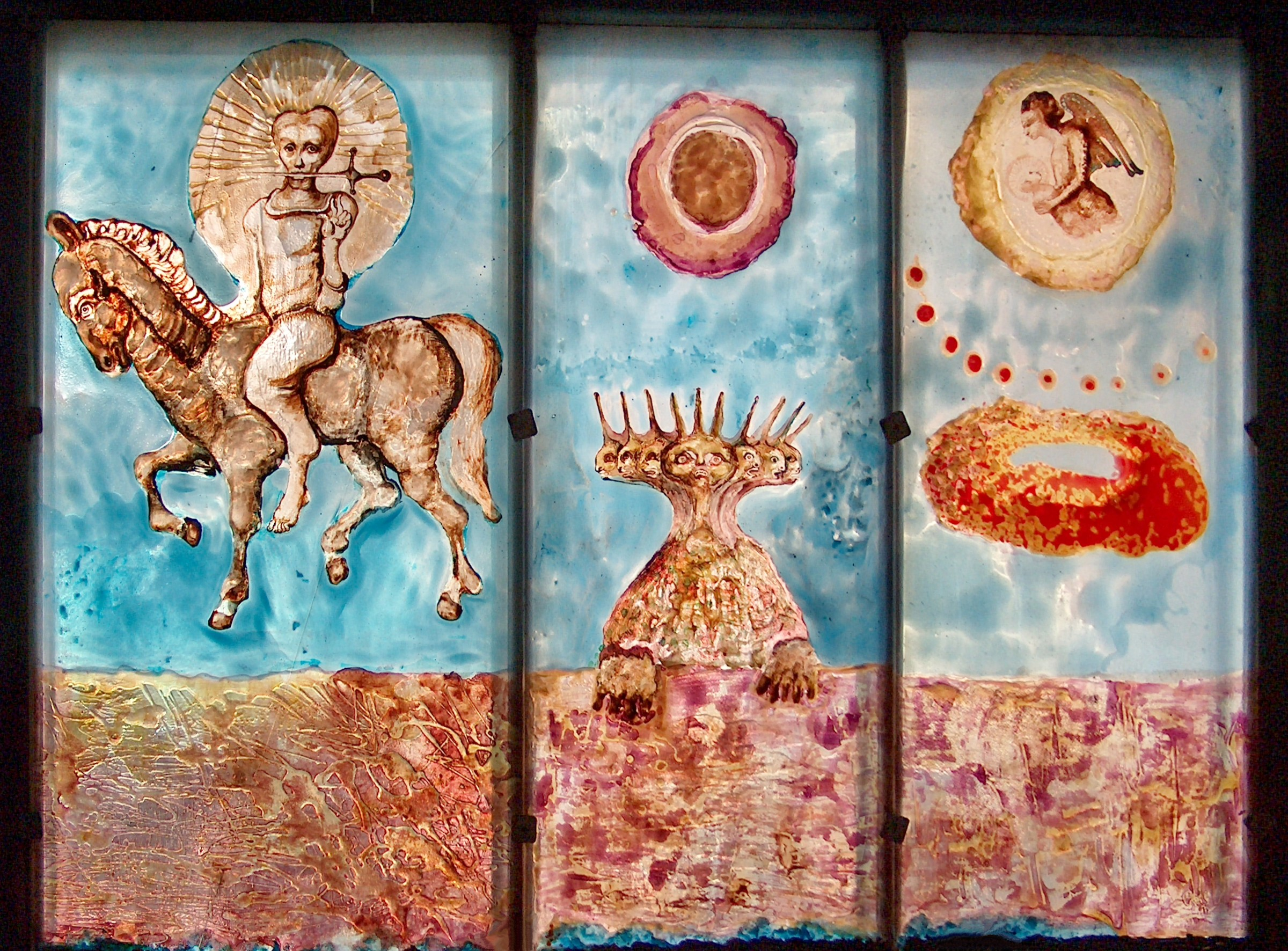 a stained glass of Jan Lebenstein in the Pallottines' chapel in Paris